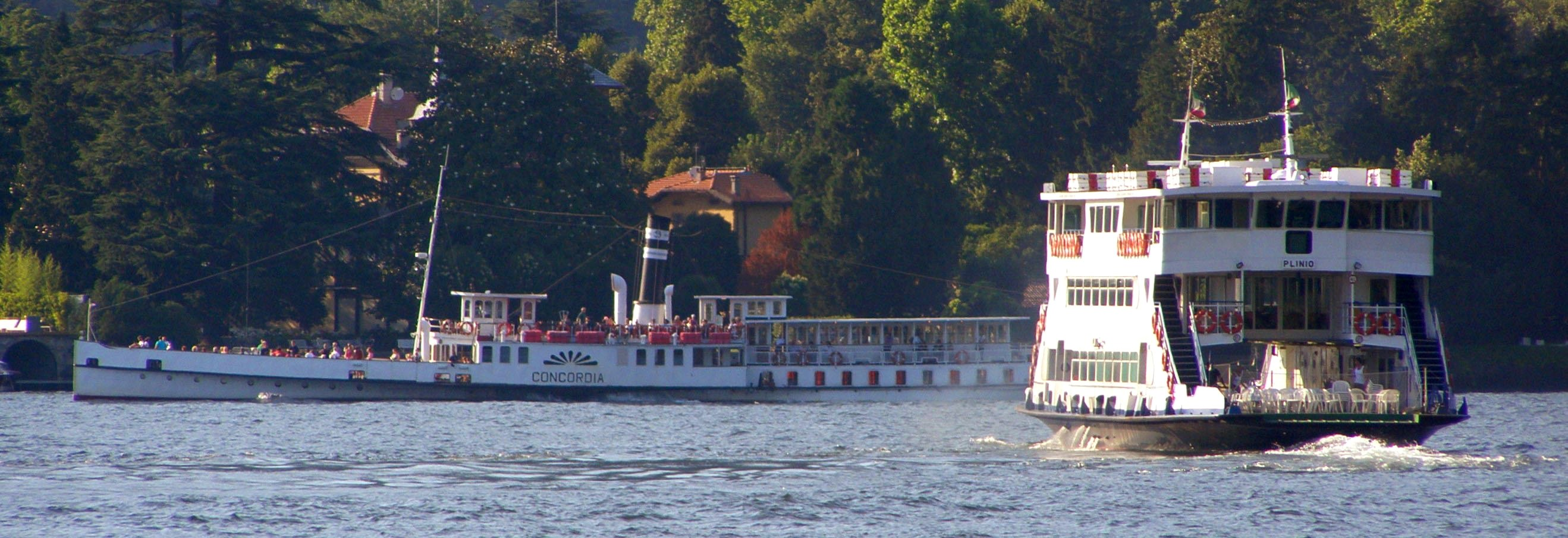 Ships on Lake Como (Italy)